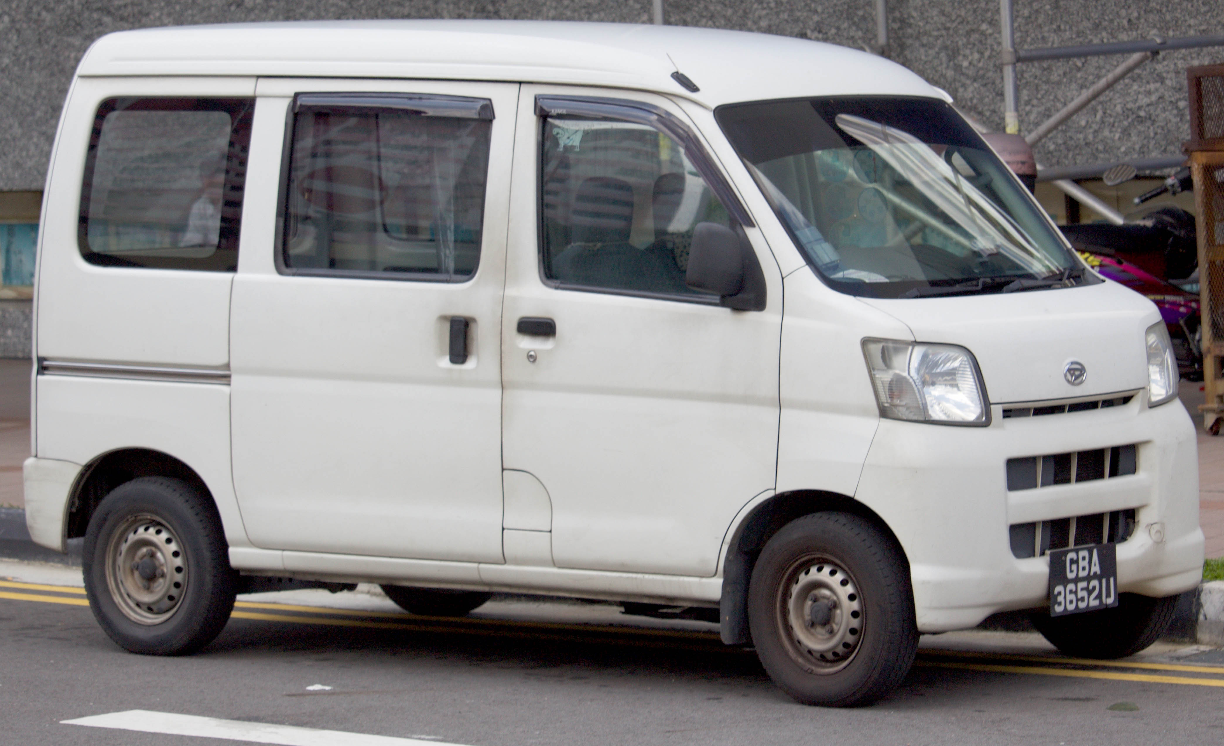 2007 Daihatsu Hijet, in Singapore (10th Generation)